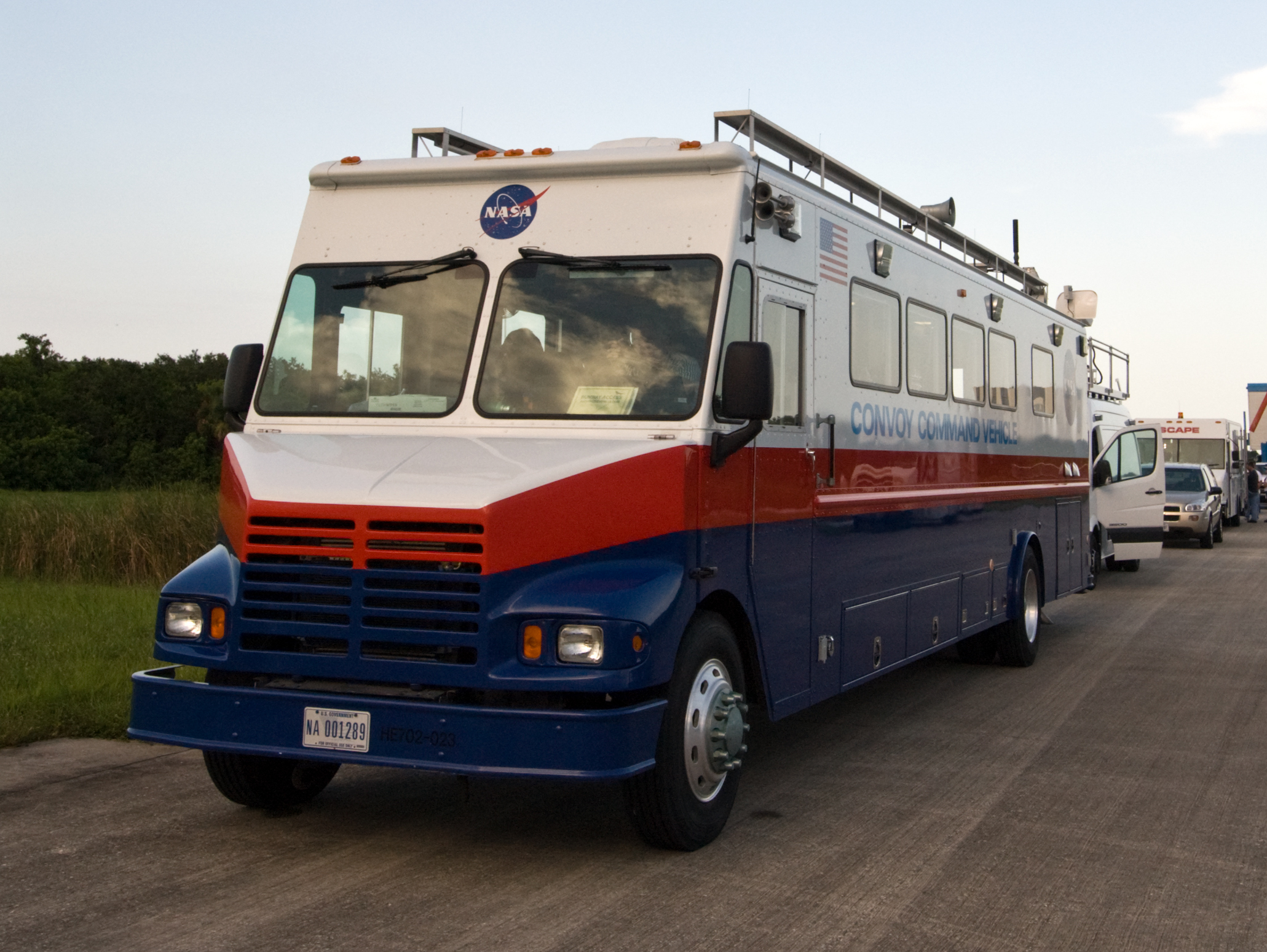 The convoy command and SCAPE vehicles are in position at the Shuttle Landing Facility at NASA's Kennedy Space Center in Florida in the event of a return-to-landing-site is needed after launch of space shuttle Endeavour on the STS-127 mission. This is the fourth launch attempt for the STS-127 mission. The first two launch attempts on June 13 and June 17 were scrubbed when a hydrogen gas leak occurred during tanking due to a misaligned Ground Umbilical Carrier Plate. Mission managers also decided to delay tanking on July 11 for a launch attempt later in the day to allow engineers and safety personnel time to analyze data captured during lightning strikes near the pad on July 10. Endeavour will deliver the Japanese Experiment Module's Exposed Facility, or JEM-EF, and the Experiment Logistics Module-Exposed Section, or ELM-ES, in the final of three flights dedicated to the assembly of the Japan Aerospace Exploration Agency's Kibo laboratory complex on the International Space Station. STS-127 is the 29th flight for the assembly of the space.